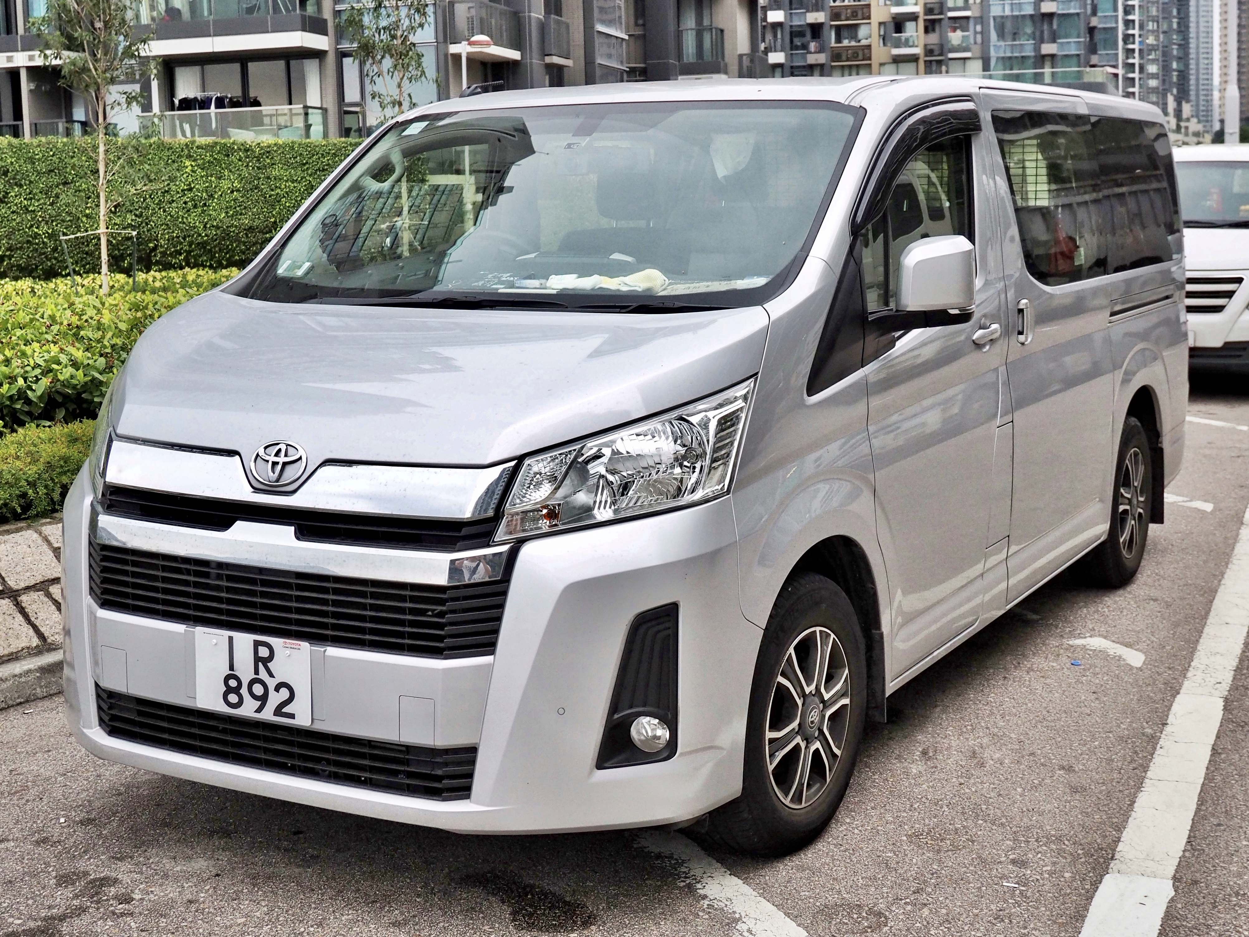 A 2019 Toyota HiAce taken in Tsuen Kwan O, New Territories, Hong Kong